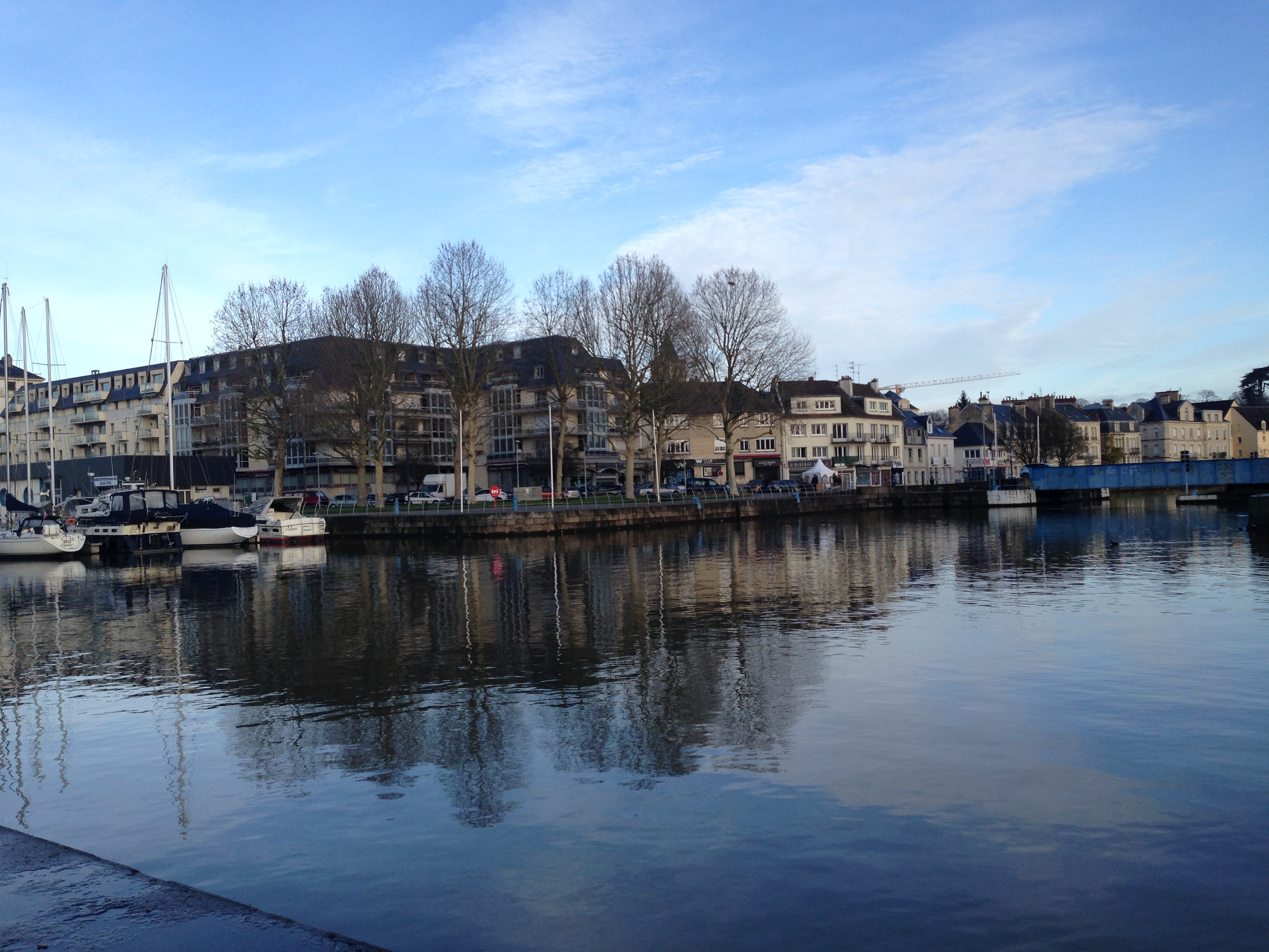 Canal de Caen à la mer